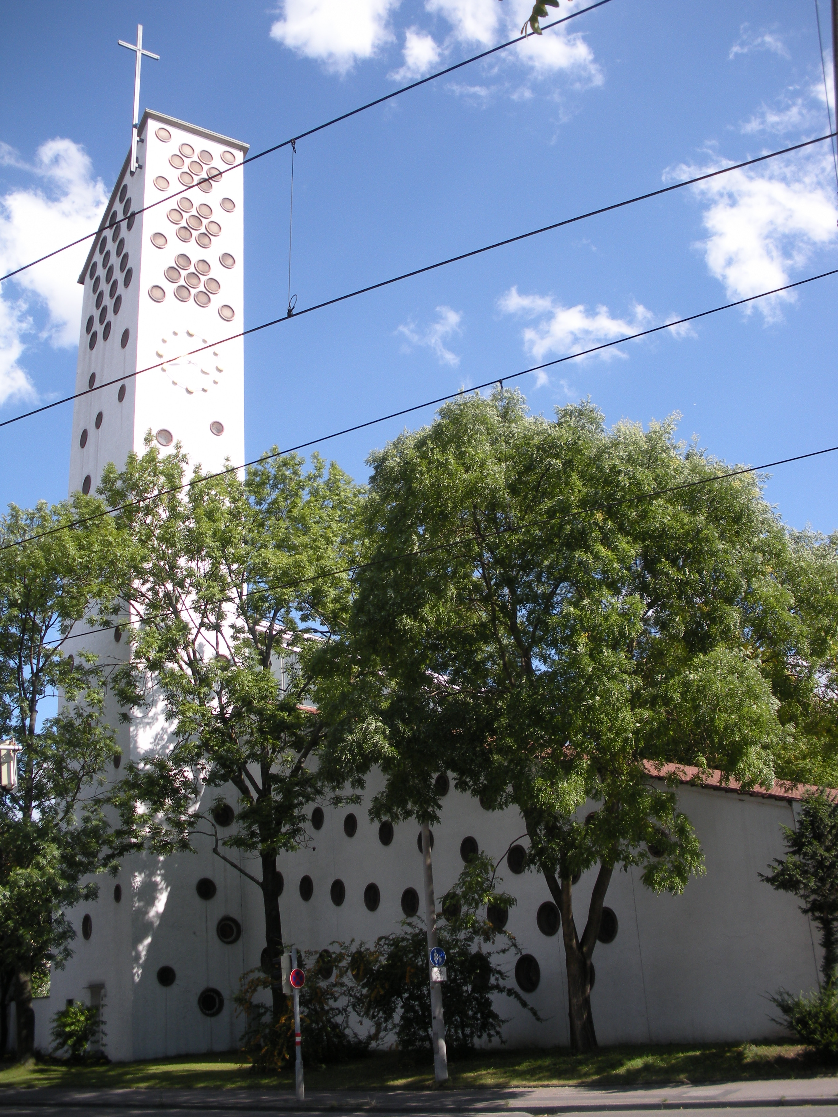 Protestant Auferstehung-Church in Stuttgart-Rot